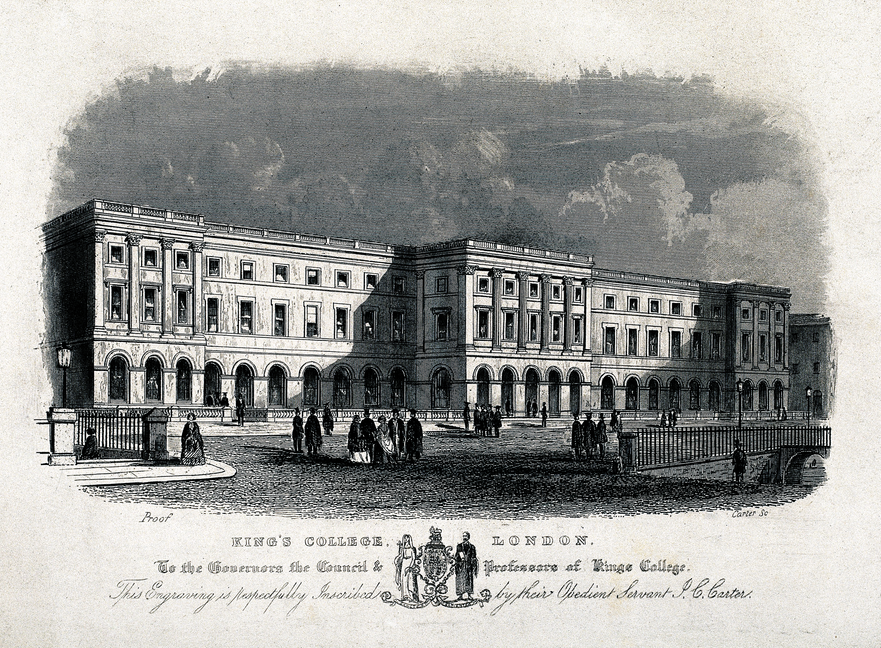 King's College, Strand, London. Engraving by J. C. Carter. Iconographic Collections Keywords: Robert Smirke; King's College, London; J. C. Carter